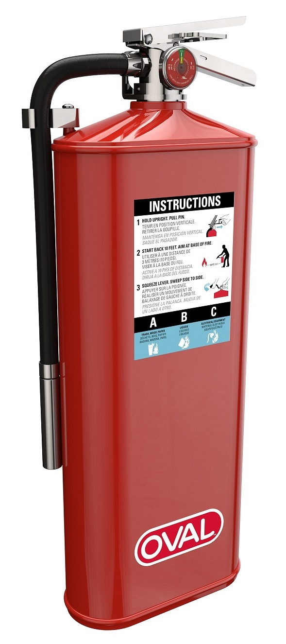 Image of ABC fire extinguisher as manufactured by Oval Fire Products